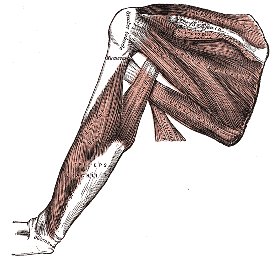 back muscles of arm